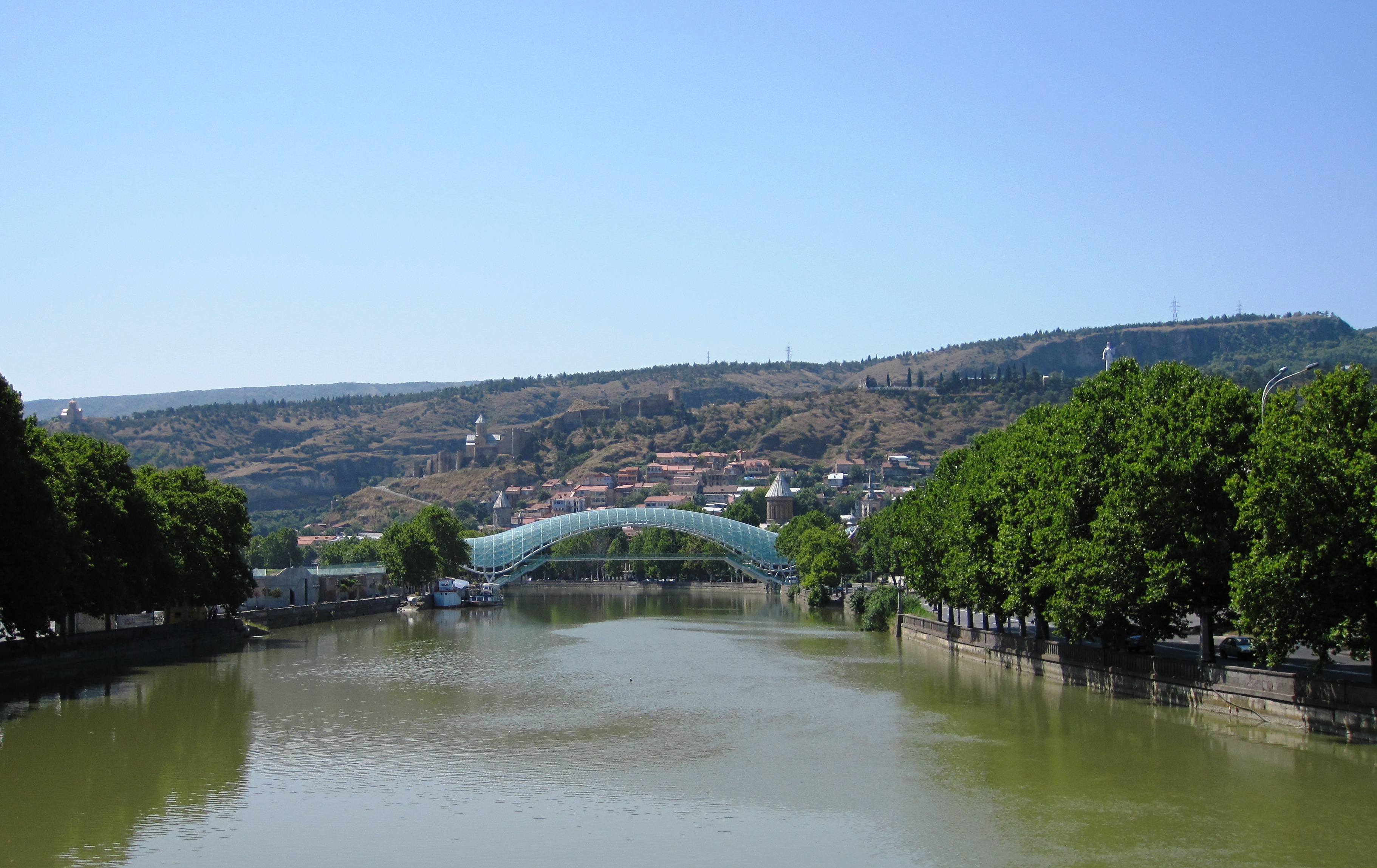 The Peace Bridge over the River Mtkvari (Kura) in Old Tbilisi